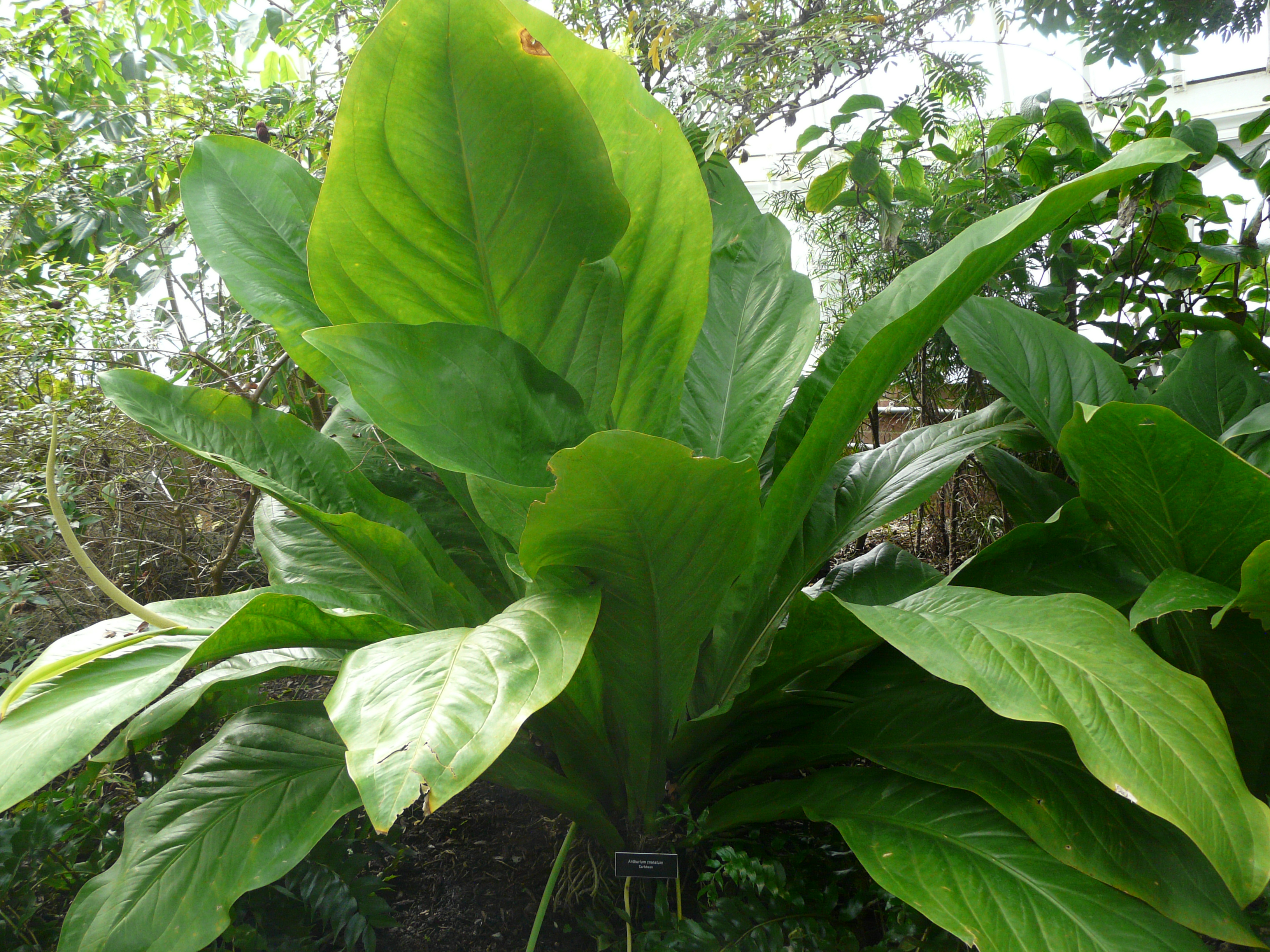 Phipps Conservatory